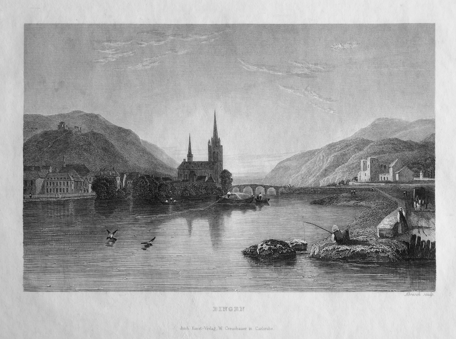 Steel engraving from "Travelling Sketches" by William Clarkson Stanfield (around 1833): Bingen.